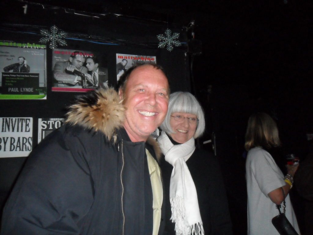 Michael Kors, left, in January 2015, at Julius's restaurant in Greenwich Village, with a fan. Taken a Julius's restaurant, 159 West 10th St., Greenwich Village, New York, during a birthday party. The woman at the right is the mother of the "birthday boy" and a fan of Michael Kors.